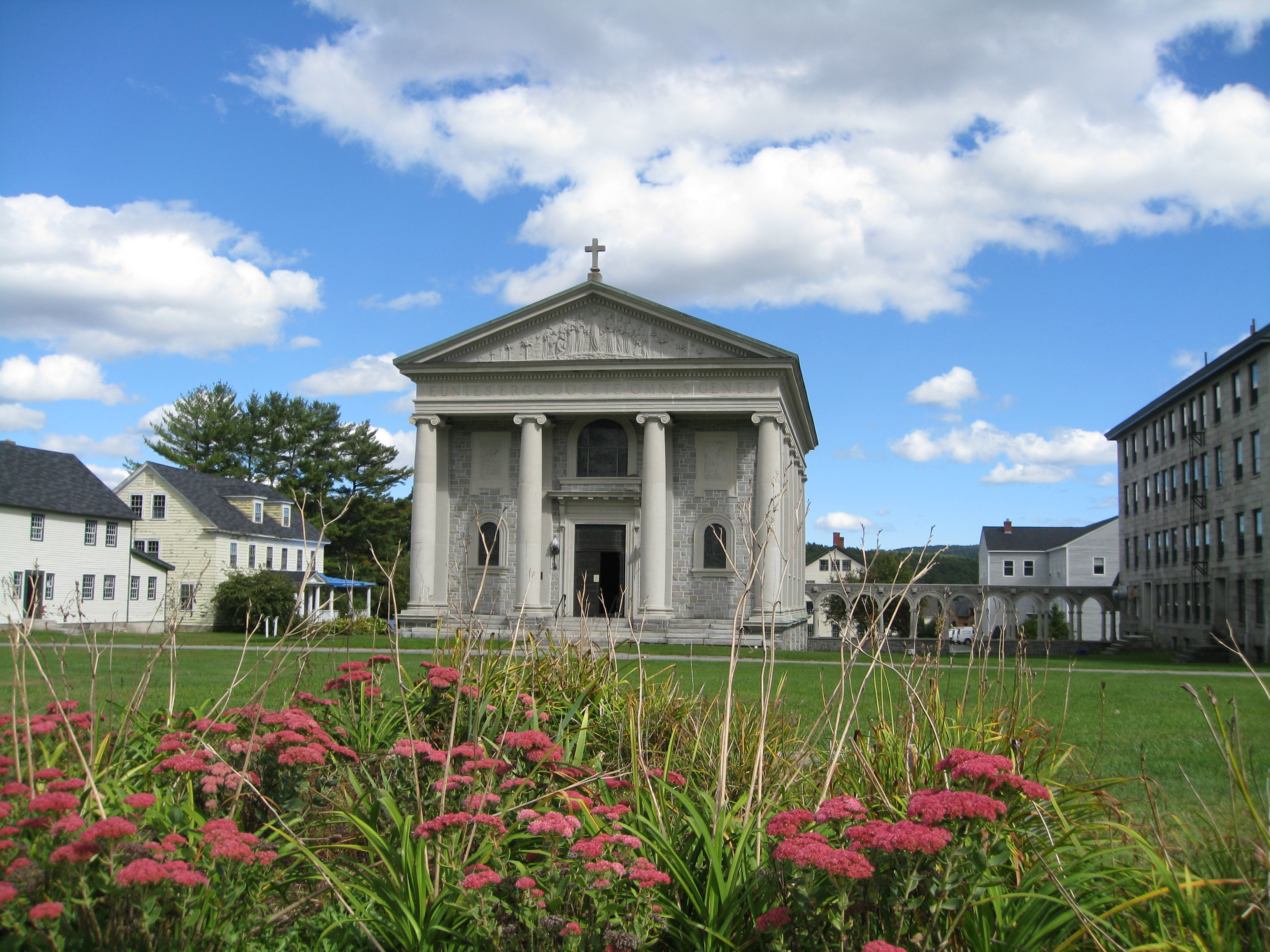 The Mary Keane Chapel, Enfield Shaker Historic District